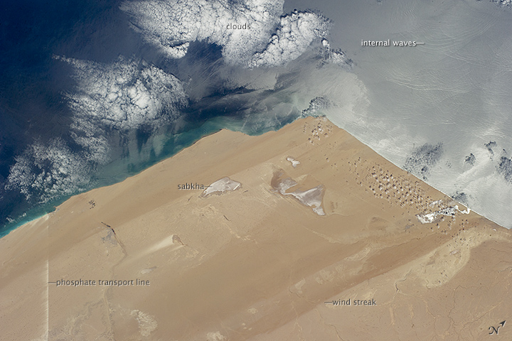 Recently tweeted from the International Space Station, this image of the extremely arid West African coast of the Atlantic Ocean looks otherworldly. The image shows 215 kilometers (134 miles) of the Saharan coastline. The main patterns seen from orbit are the straight lines produced by strong northerly winds that blow parallel to the coast, producing wind streaks of sand and sand-free surfaces. The Sun’s rays are reflected off salty lagoons known as sabkhas near the coast. Reflected sunlight (sunglint) also highlights wave features on the ocean in the upper right corner of the image. Known as internal waves, the waves move in groups towards the coastline. Surface waves are responsible for the ocean’s green tint on the left. The waves erode the coastline, and the resulting sediment colors the water. The bright straight line at image lower left is a transport corridor of roads, railroads and conveyor belt systems that transport phosphates 100 km (60 miles) from inland mines to the coast. Strong northerly winds blow dust and phosphate into the desert, giving a jagged edge to this line on its south side. The features in this image—unfamiliar to many—are common in other west coast deserts such as the Namib Desert of Namibia and the Atacama Desert of Chile and Peru